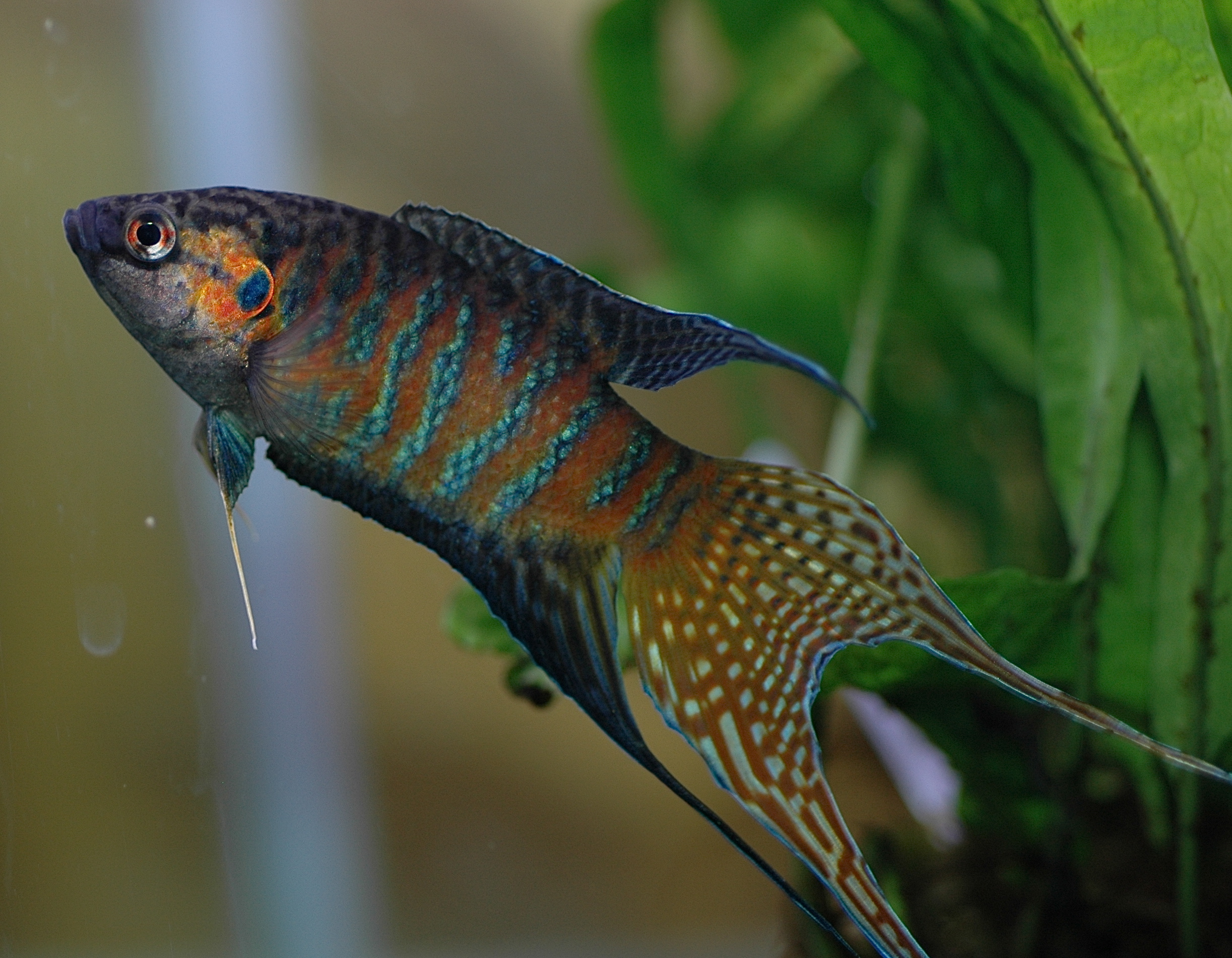 Paradise fish Macropodus opercularis, male, in an aquarium.